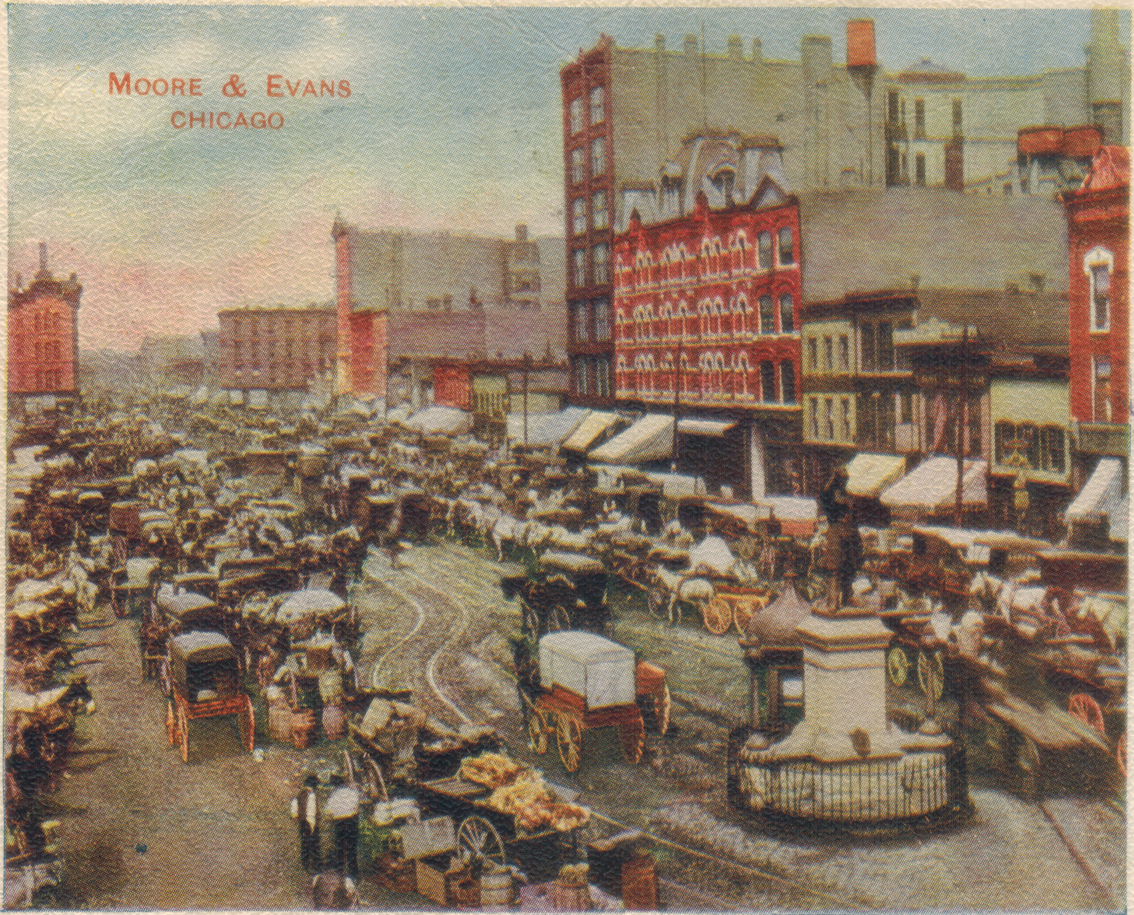 Haymarket Square, Chicago Circa 1905 (front)